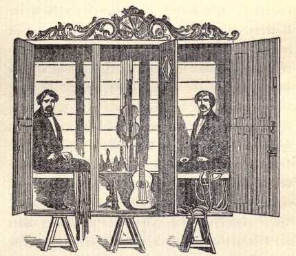 The seance cabinet of the Davenport brothers.